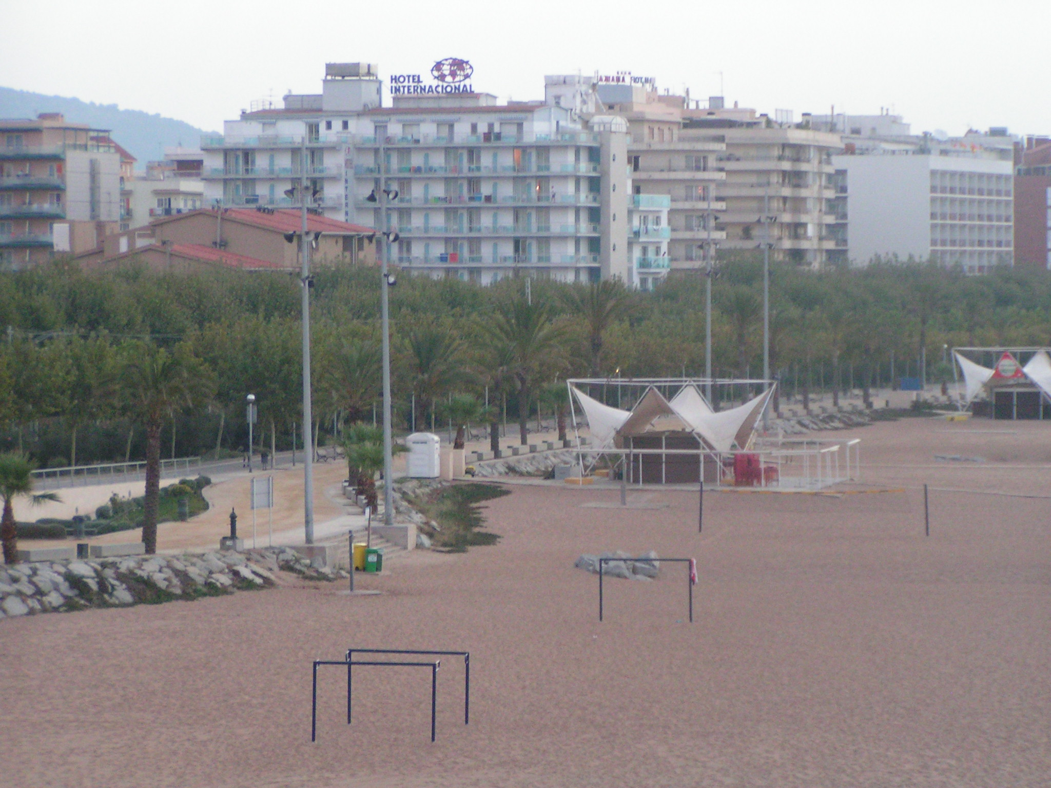 Hotels at the beach of Calella (Maresme, Catalonia, Spain).